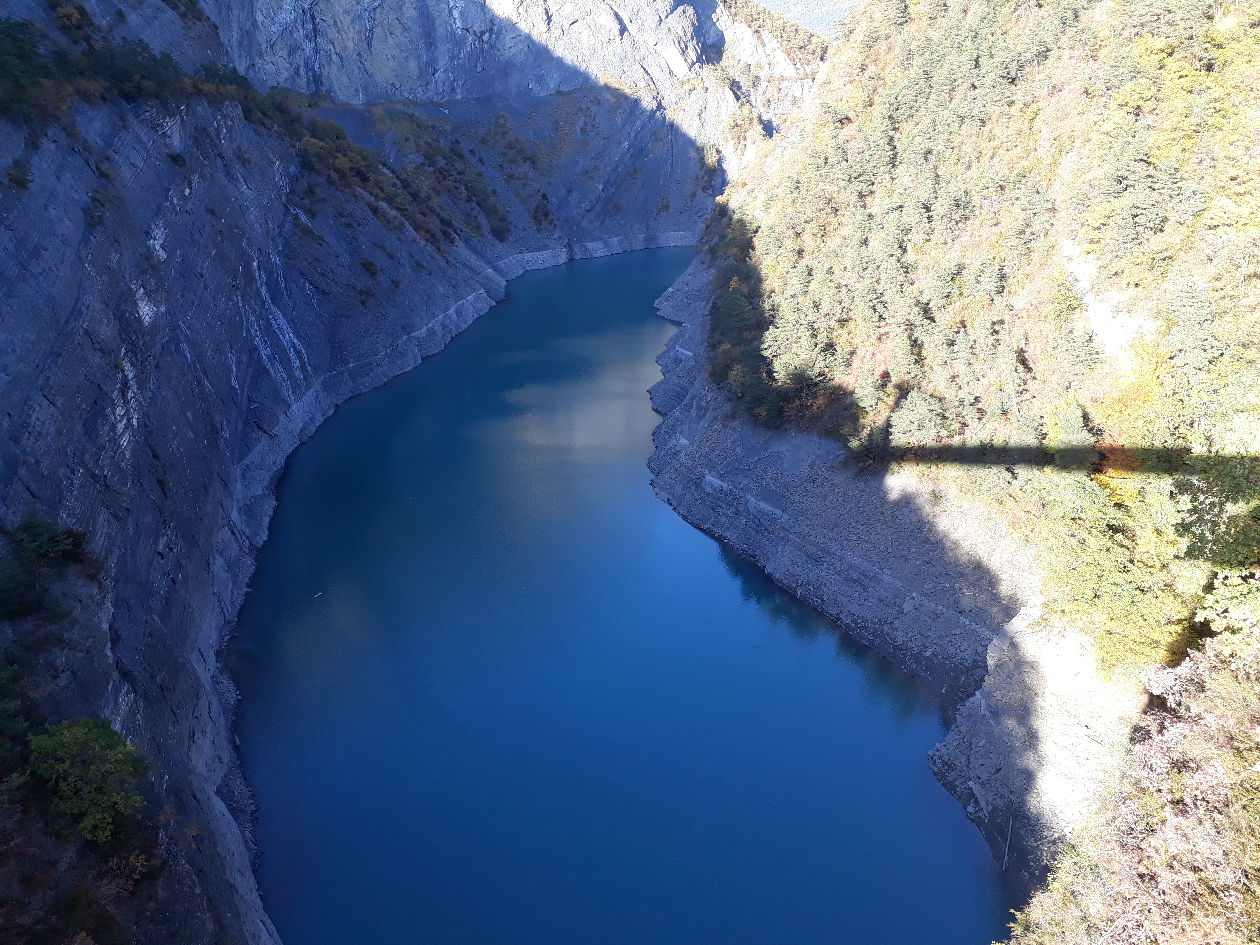 Ebron river, seen from Brion bridge